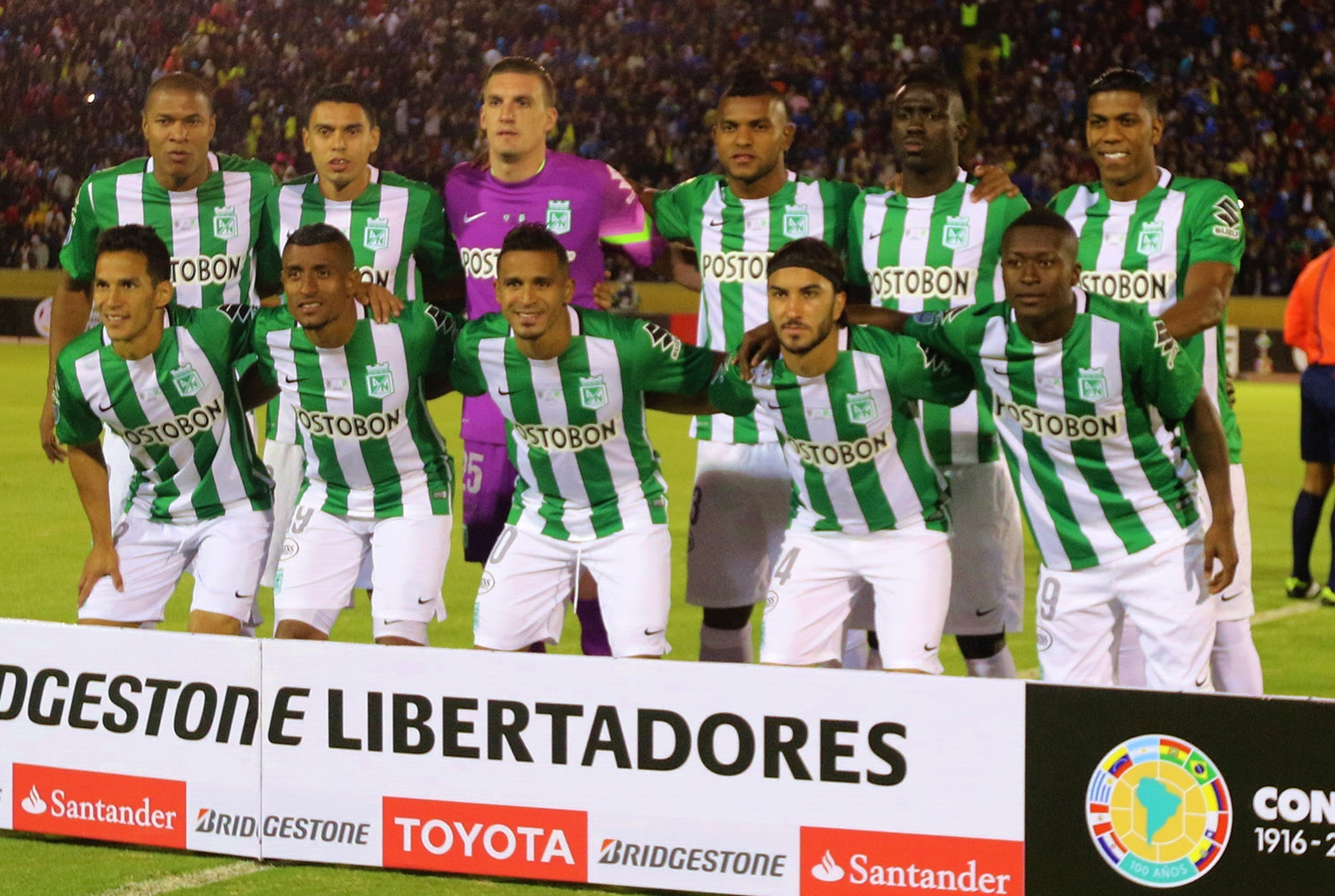 Corporación Deportiva Club Atlético Nacional 2016